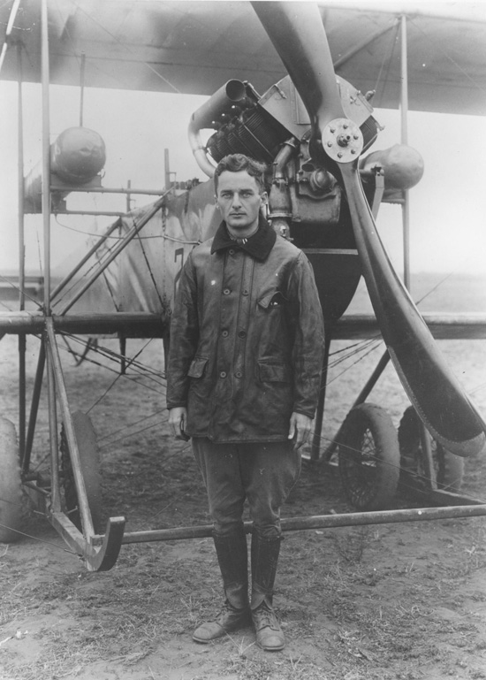 Townsend Dodd standing in front of his aircraft. From the San Diego Air and Space Museum Archive